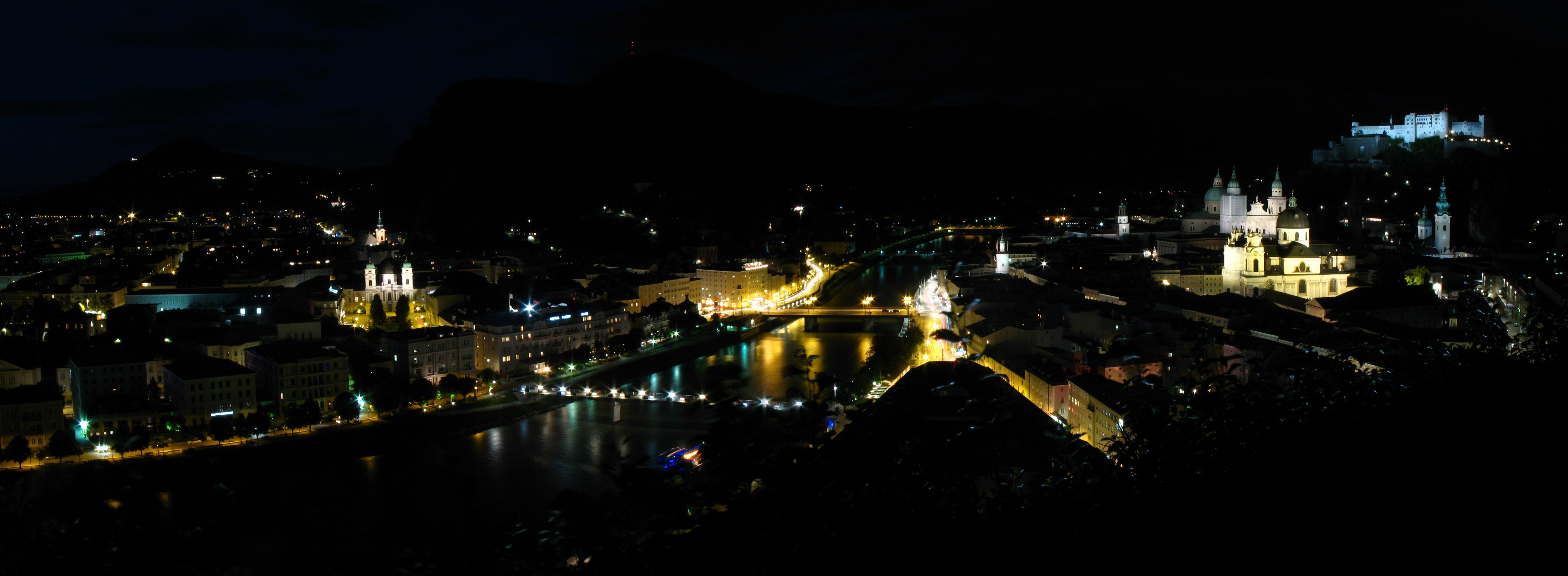 View from Mönchsberg (i.e. Monk Hill), Salzburg, Austria